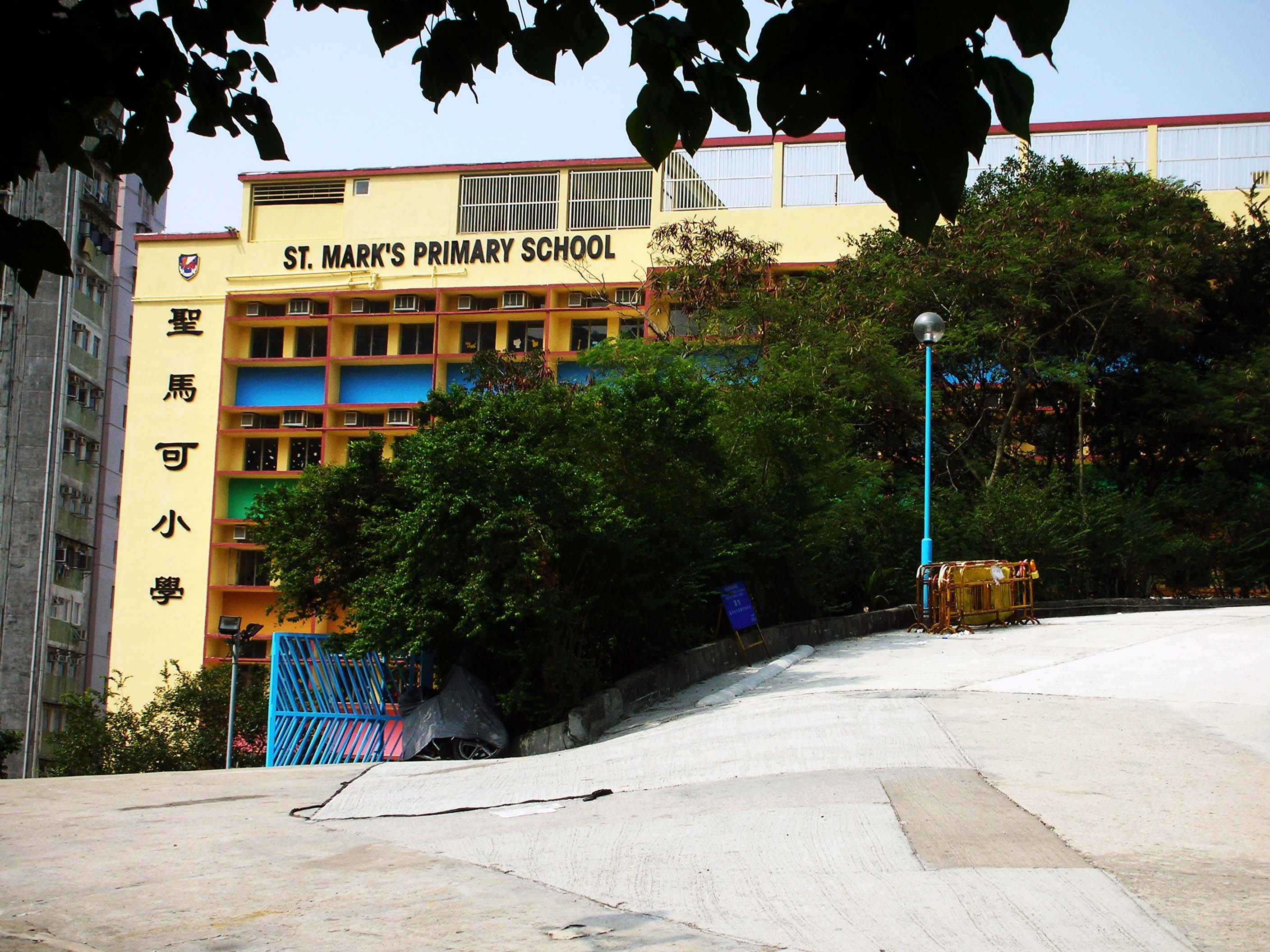 St. Mark's Primary School, located at Shau Kei Wan, Hong Kong 聖馬可小學